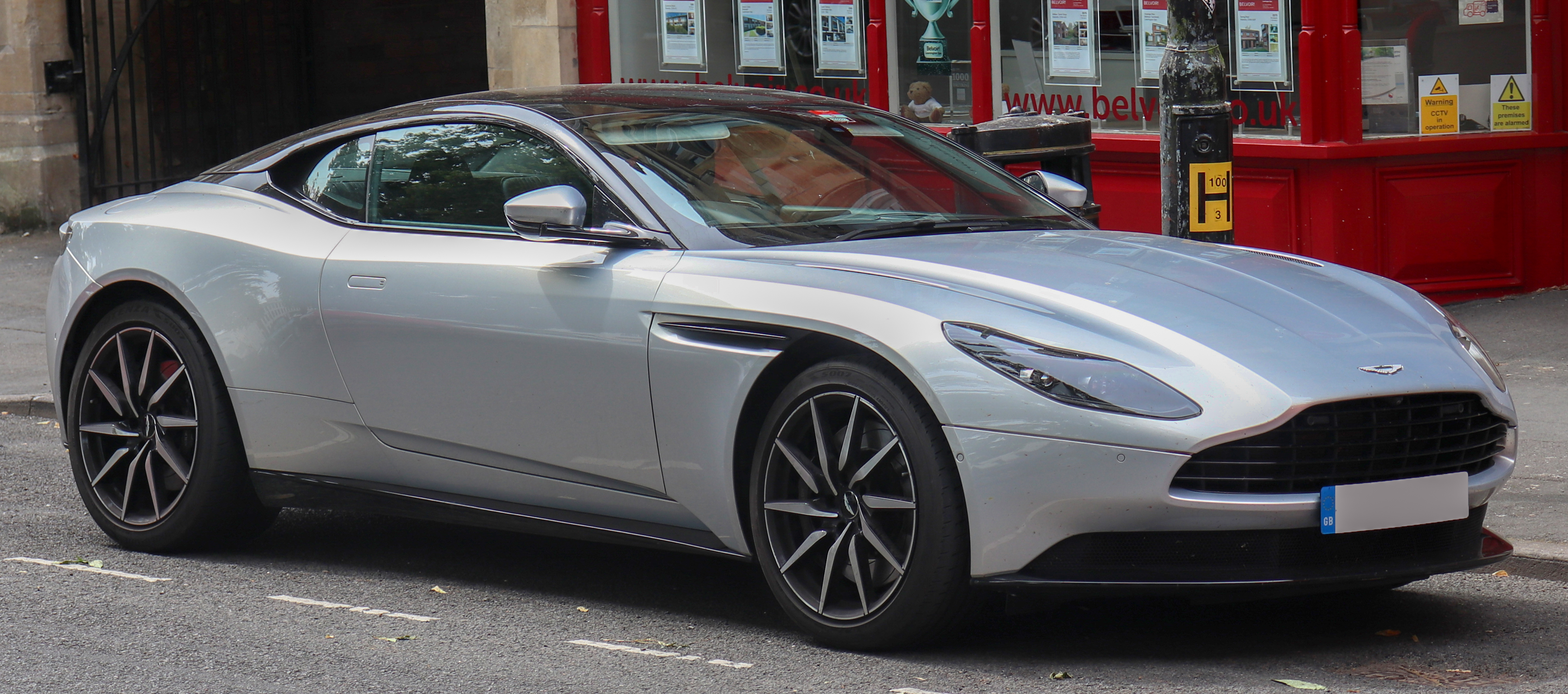 2018 Aston Martin DB11 V8 Automatic 4.0 Taken in Leamington Spa